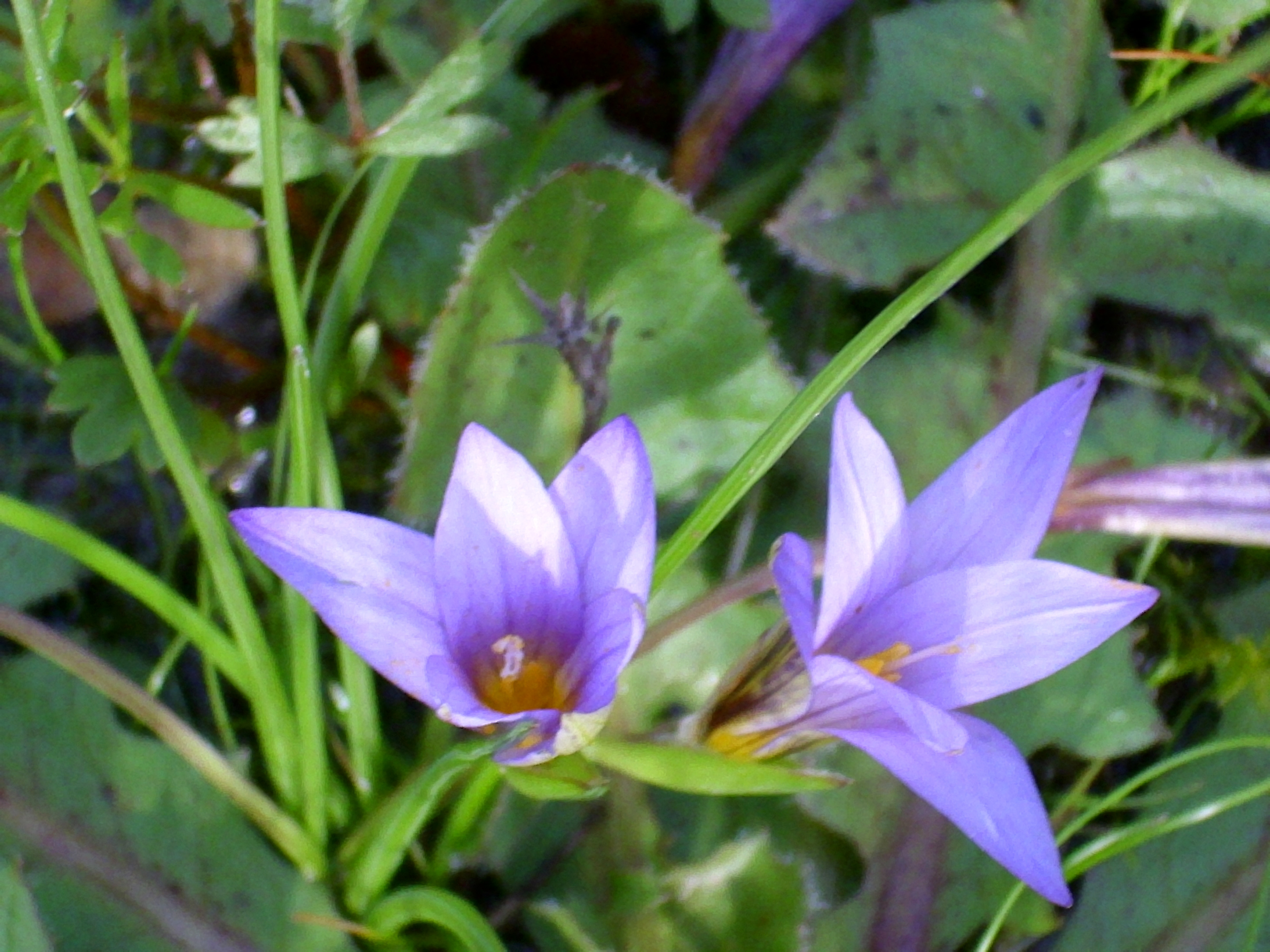 Romulea ramiflora flowers, Dehesa Boyal de Puertollano, Spain